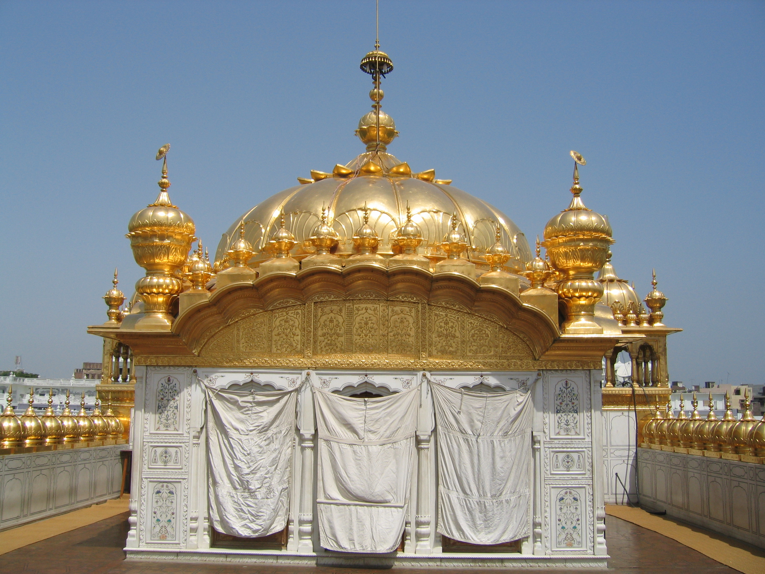 Golden Temple